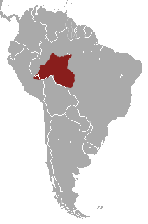 Purus Red Howler (Alouatta puruensis) range IUCN: Alouatta puruensis Lönnberg, 1941 (old web site) (Least Concern) Mammal Species of the World (v3, 2005) link: Alouatta seniculus Linnaeus, 1766 (Syn. Alouatta seniculus puruensis)